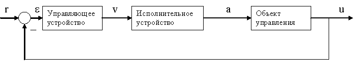 simple servo system